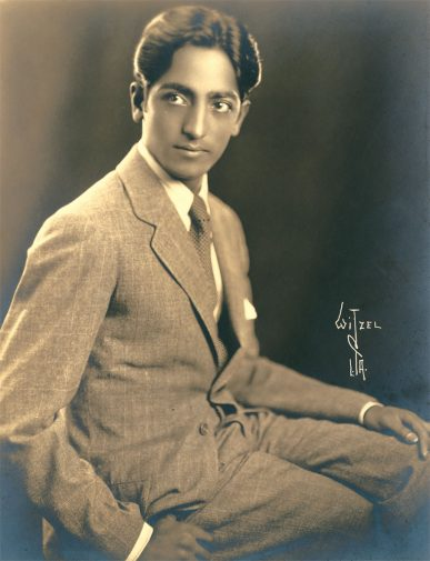 Portrait of Indian philosopher Jiddu Krishnamurti (1895–1986) by American photographer Albert Witzel (1879–1929).